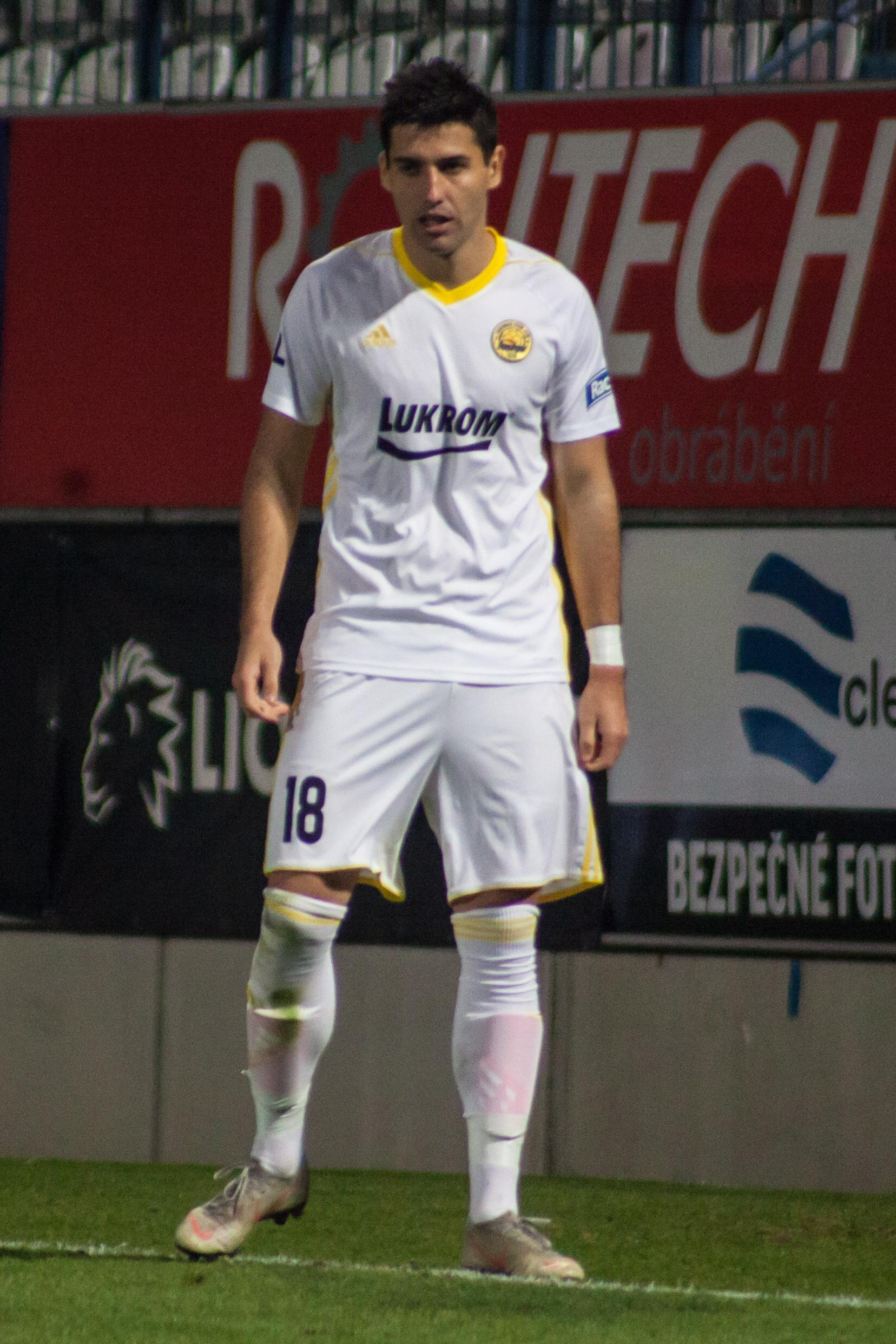 Zoran Gajić At Czech cup (MOL Cup) match SK Sigma Olomouc-FC Fastav Zlín played on 15 November 2018